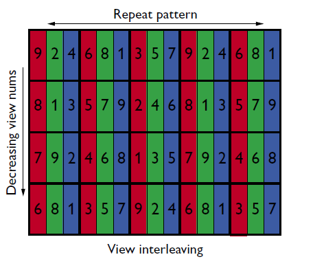 Repeated pattern in 3D TV.